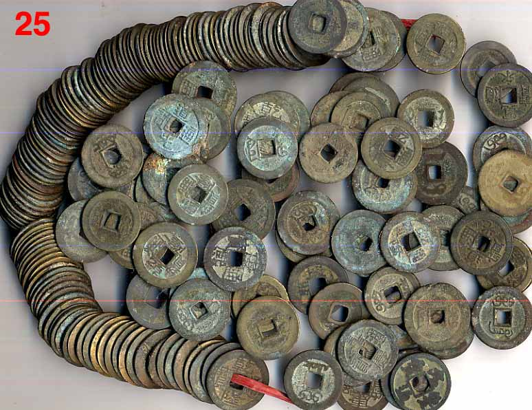 BULK LOTS & COLLECTIONS XB 25a Indonesia Strings Most Chinese cash imported to the U.S. today are for the jewelry & crafts trade, and they come from Indonesia, where local Chinese communities have imported them for use since the Ming dynasty. Suppliers there collect them from villagers, construction people, or anyone else who finds them in a family treasure trove or buried in the ground. They are tied with plastic twine in strings of 200. Sometimes coins found at one spot will manage to stay together, as I have seen strings where every coin is toned & encrusted alike (common burial), or where there are no coins past Yung Cheng's reign. Sample strings from recent imports show about 90% Qing, naturally dominated by the commoner rulers, Peking Mints, though usually with some Sung, Ming, a Kai Yuan or two, and a few Japanese and Vietnamese. There may be a few contemporary counterfeits or badly worn/encrusted pieces, but generally they keep these out as unwanted by the jewelry market. Recent batches include a few crude copies of (usually) Qing cash, or novel designs, made recently for use in weddings or Muslim prayer shawls when genuine cash are scarce. I do not pick through these strings, nor does my supplier, but I have no idea who sees them before the coins get to him. I pick these strings by leafing through them without breaking the cord, leaving the rest for the crafters. String of 200: Special Offer of selected, better strings.